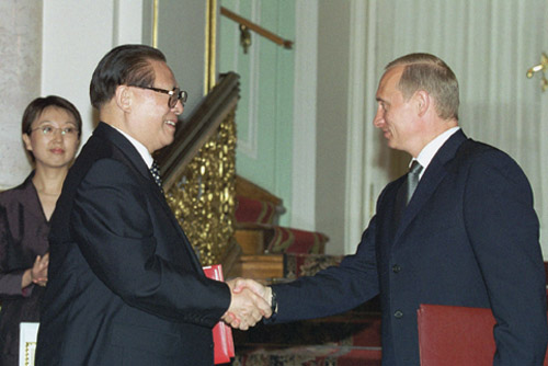 THE GRAND KREMLIN PALACE, MOSCOW. President Putin with Chinese President Jiang Zemin at a document-signing ceremony.